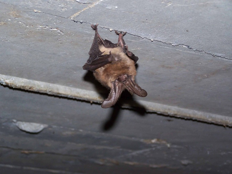 Did you know that bridges make great bat habitats? Like this little guy above, bats love to hang underneath bridges, especially at night, where it’s cool and dark. Concrete bridges are also conducive to thermoregulation — the ability bats have to regulate their body temperatures.